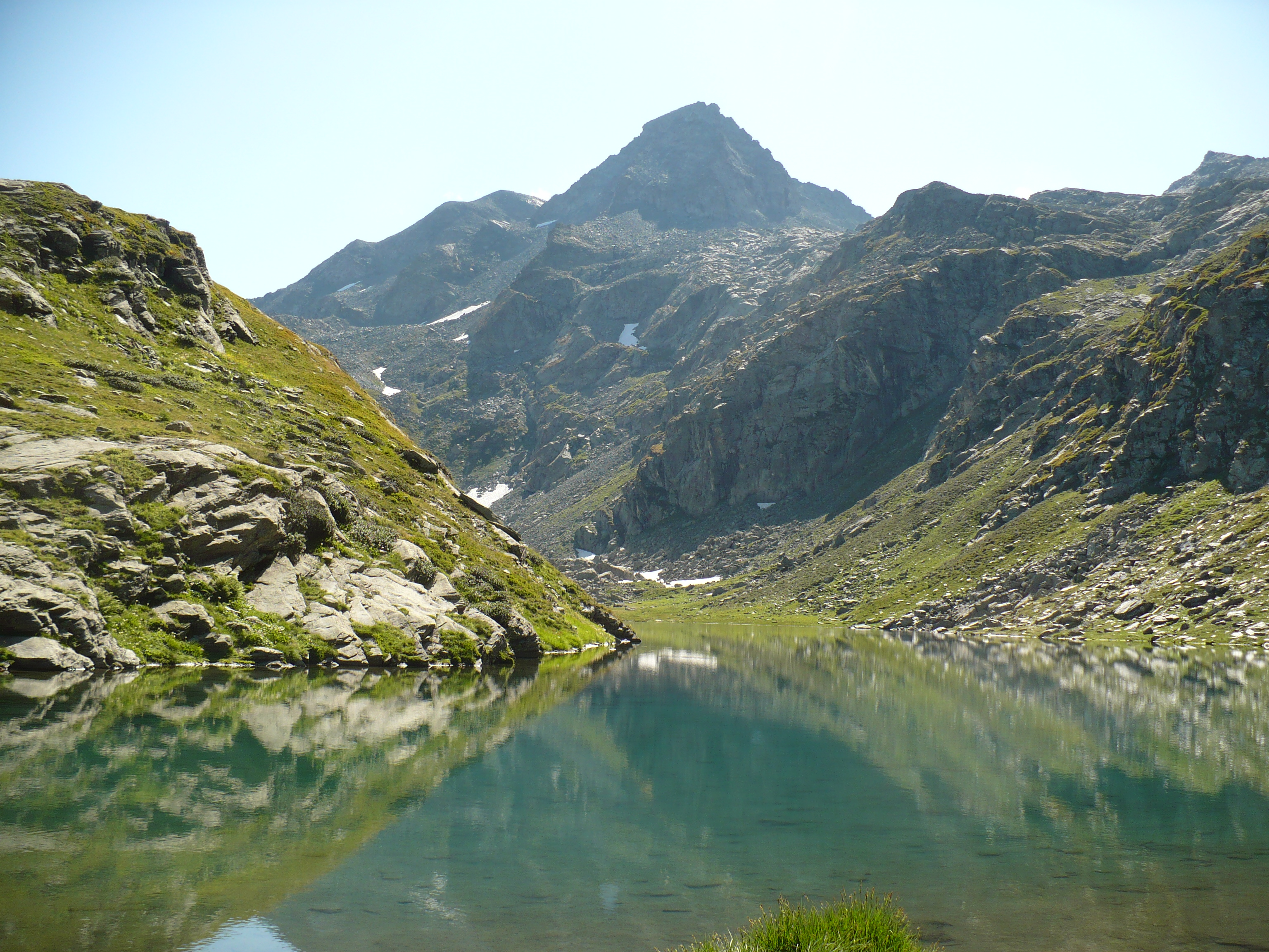 Monte Granero from Lago Lungo - Val Pellice - Cottian Alps - Italy